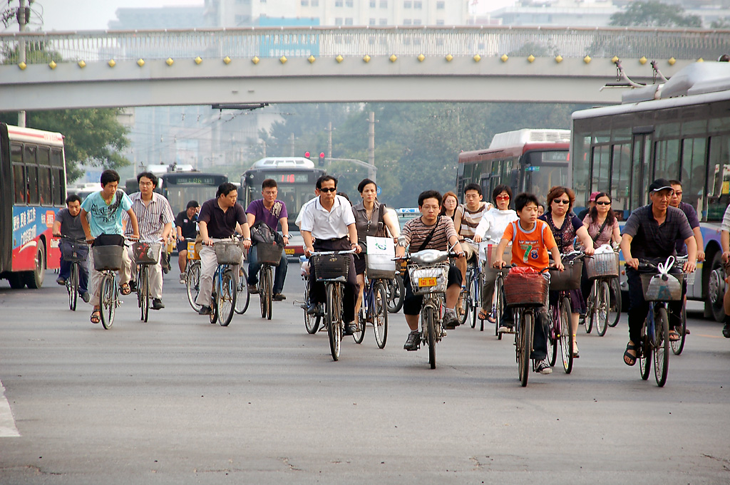 Utility cyclists at Dongdan in Beijing.